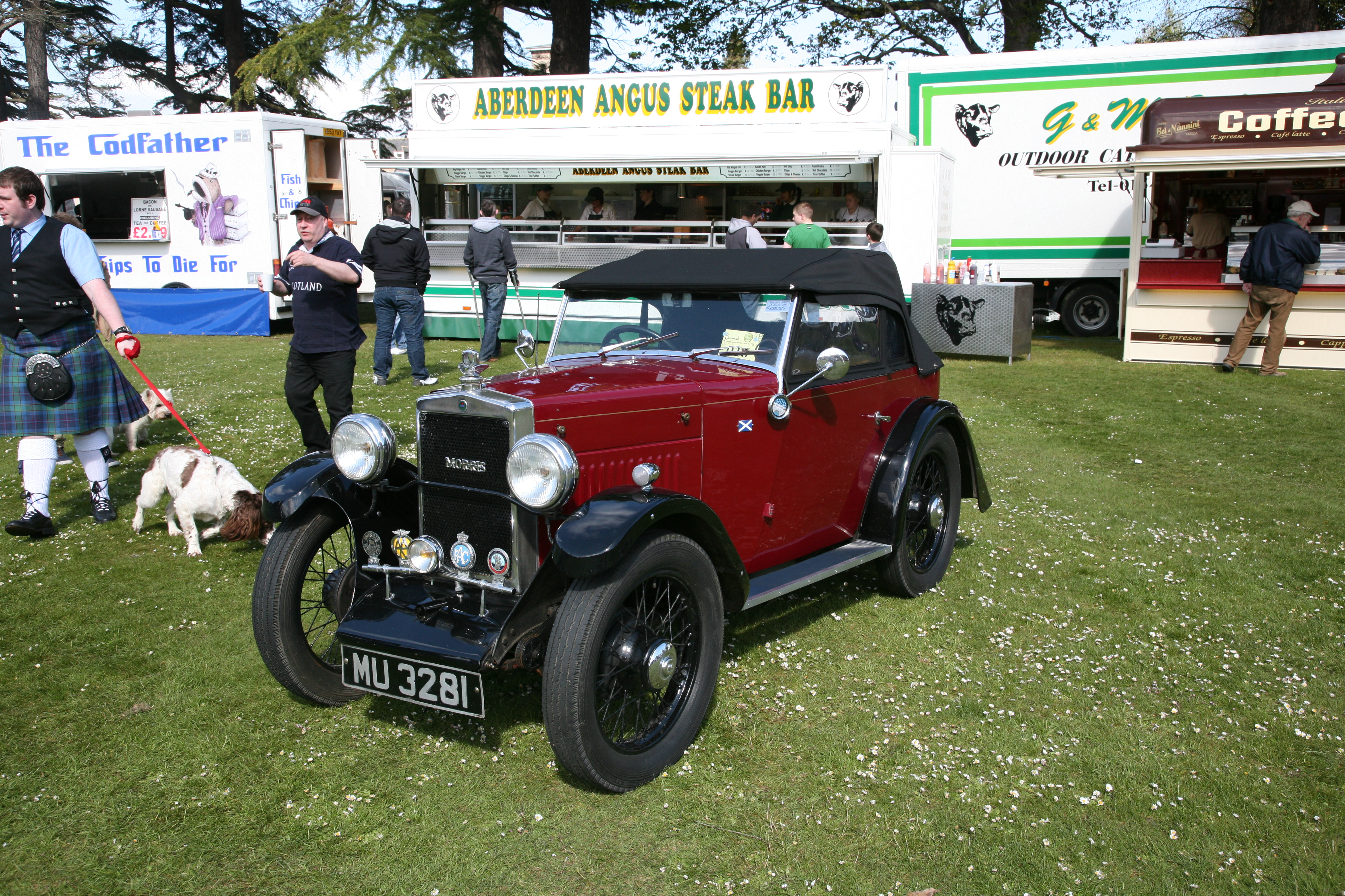 Morris Minor Flat Nose Jarvis 2 seat tourer 1931(DVLA) first registered 31 July 1931, 918 cc